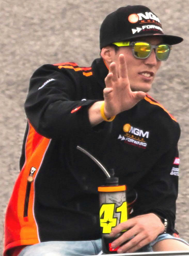 Aleix Espargaro wearing NGM colours waving to spectators from an open-top car at 2014 Motorcycle Grand Prix of the Americas